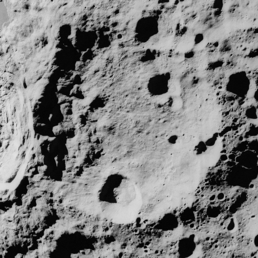 Ibn Firnas, on the far side of the moon. North is in upper right.